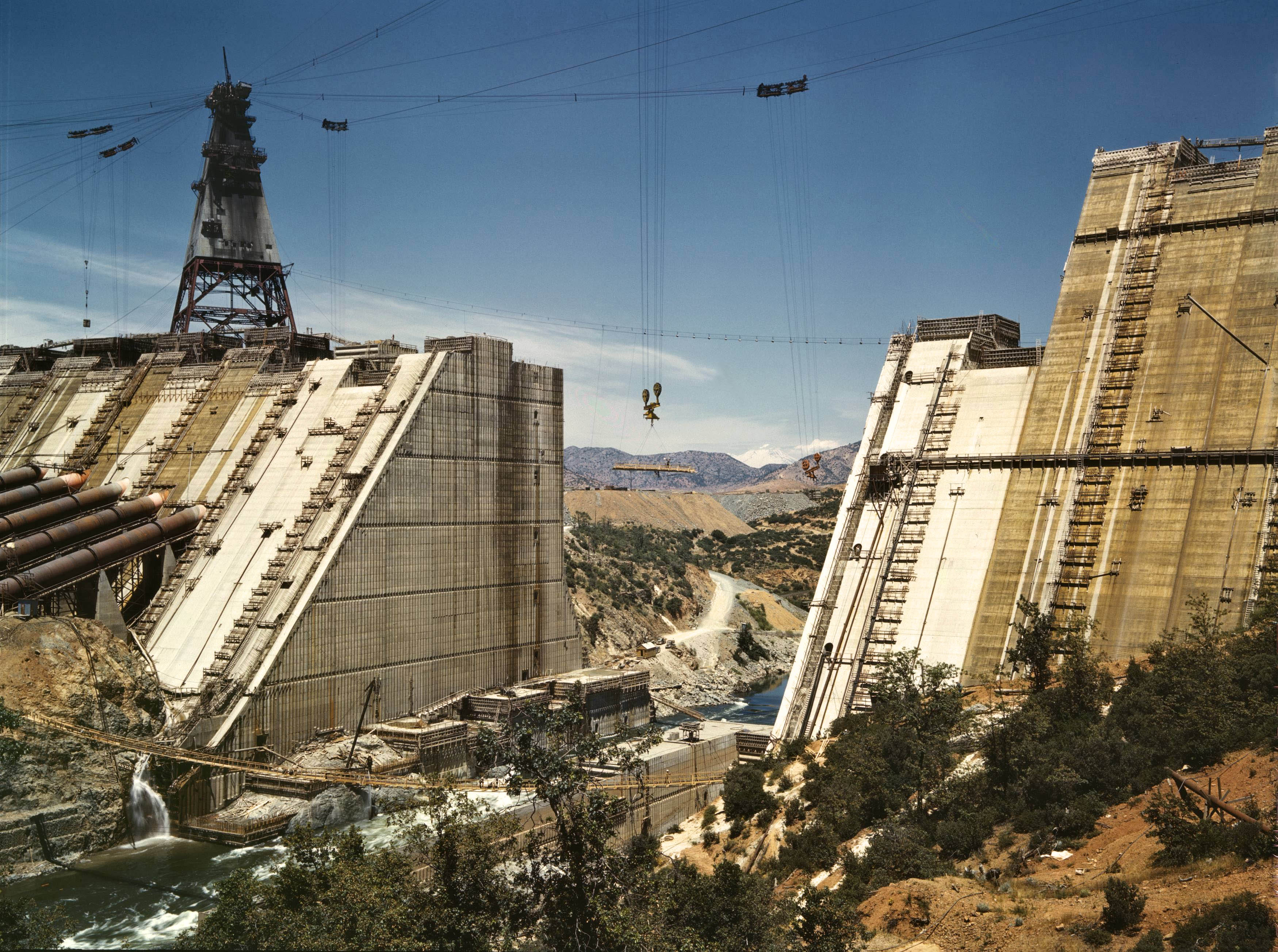 Shasta Dam under construction, California; edited by Thegreenj